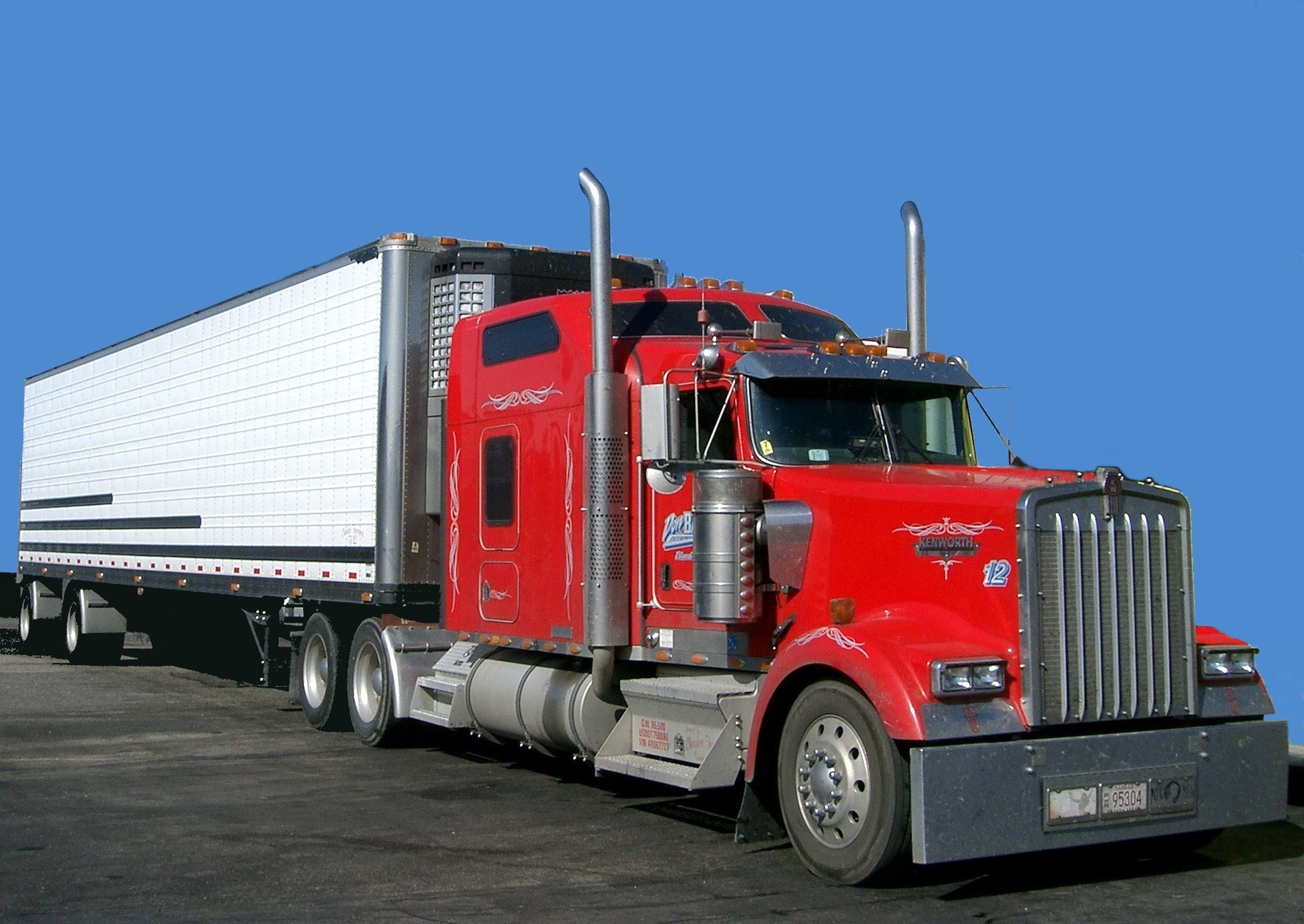 red american truck (Kenworth Truck Typ W 900, Bj. ca. 1985, 240 PS, 12800 ccm, 6 Zyl.) - West USA